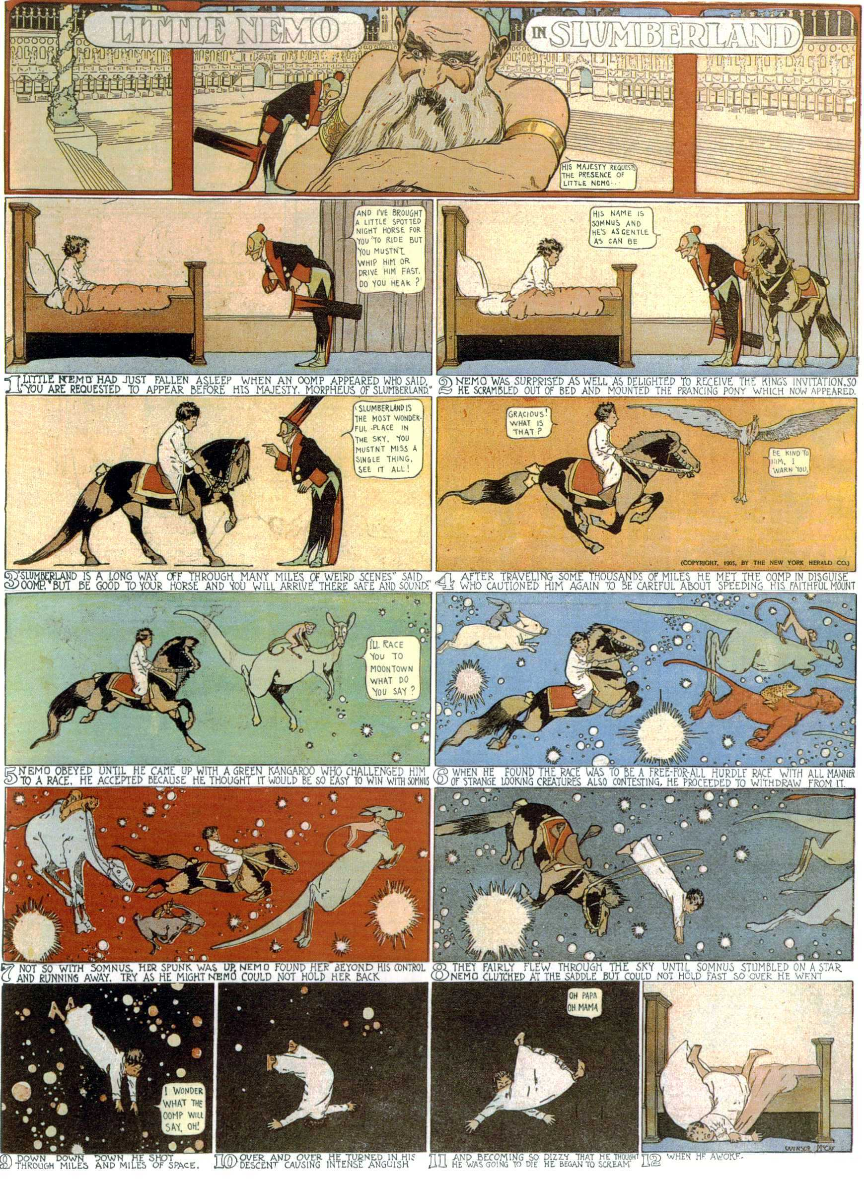 The first Little Nemo comic strip by Winsor McCay.